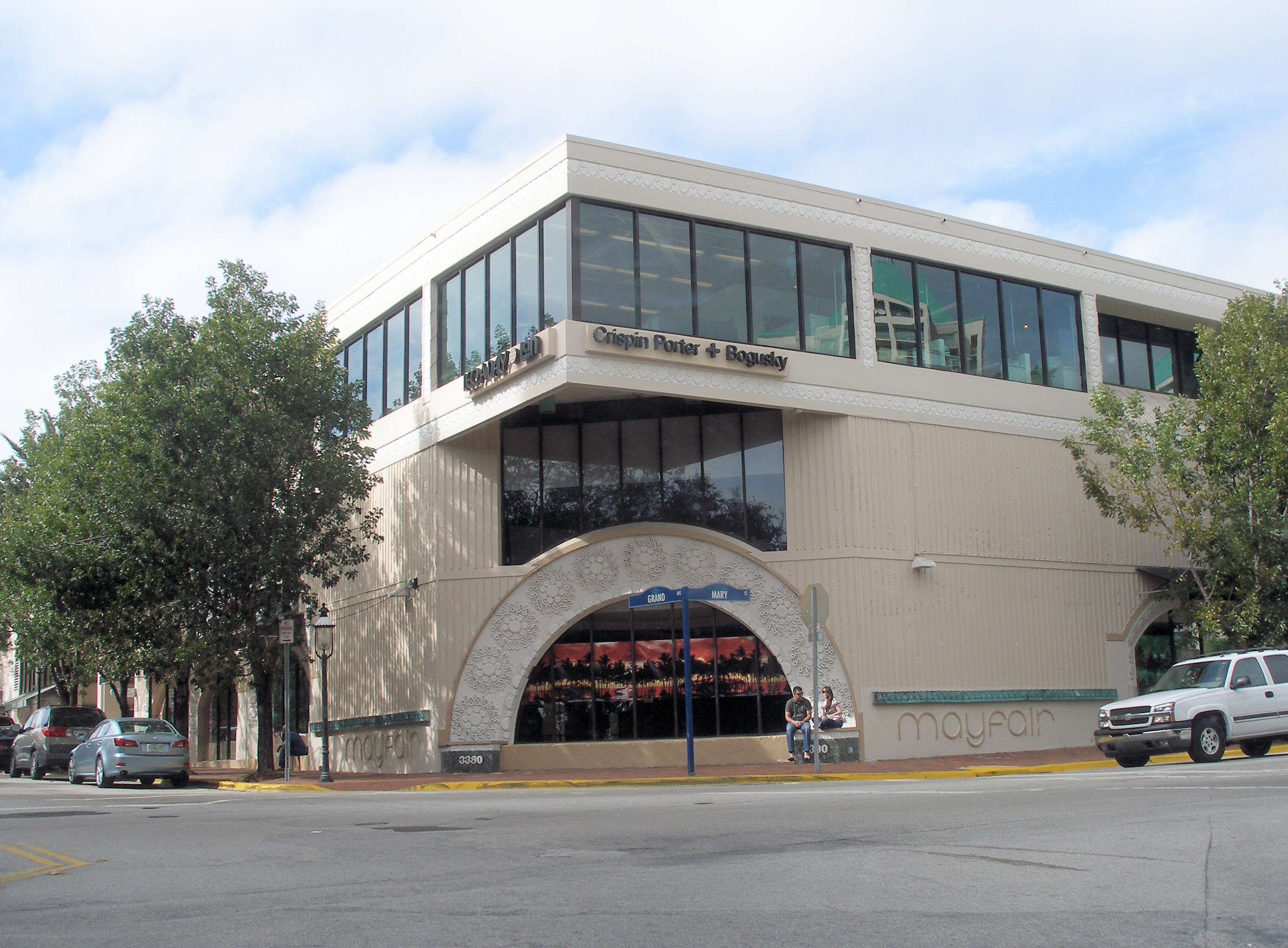 Crispin Porter + Bogusky headquarters in the Coconut Grove neighborhood of Miami.